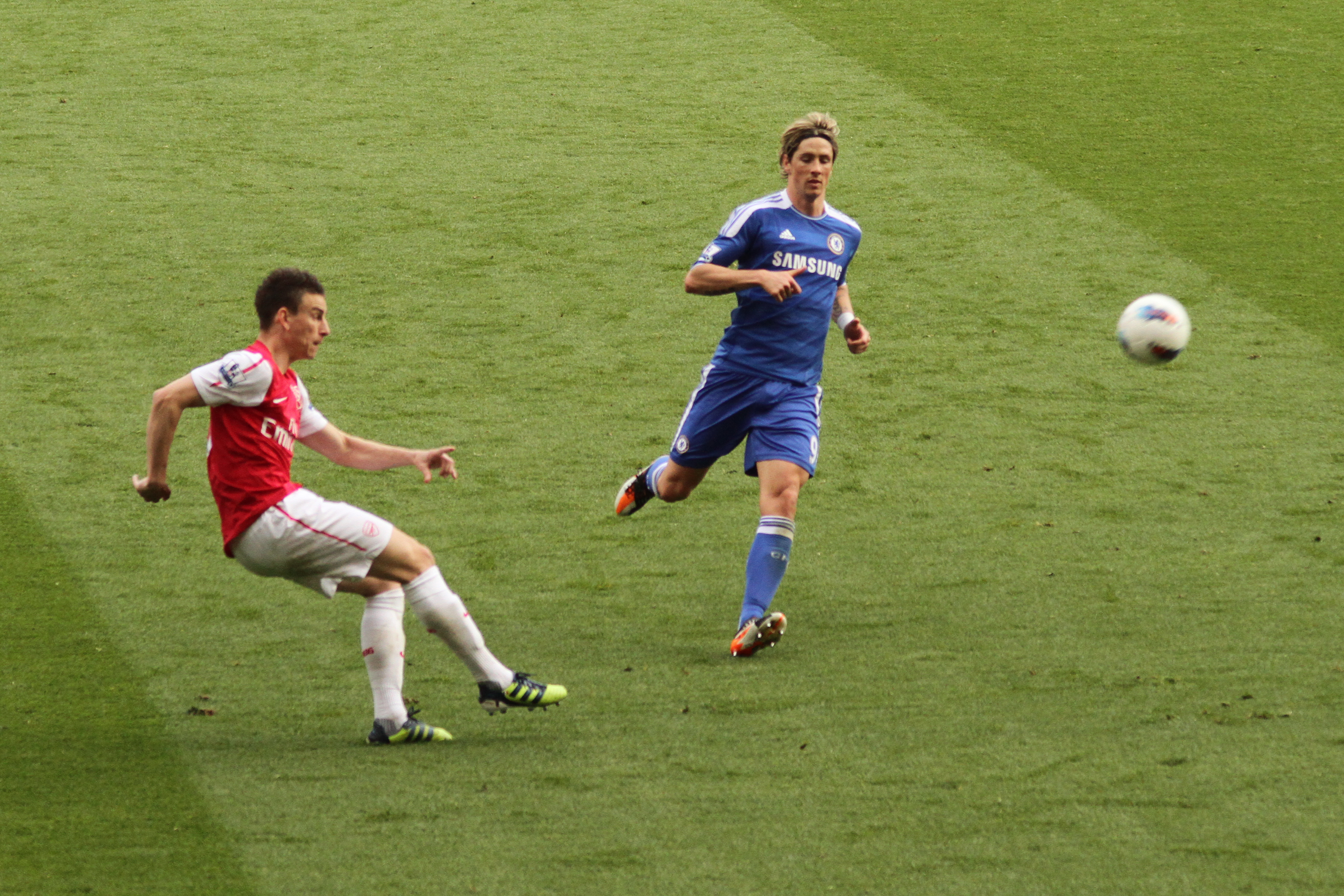 Fernando Torres and Laurent Koscielny, Aresenal vs Chelsea, April 2012.